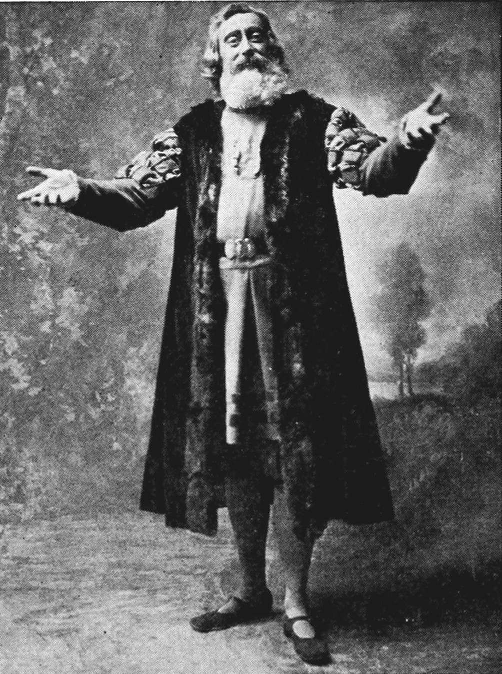 Wagner - Die Meistersinger von Nürnberg - Herbert Witherspoon as Pogner Title: The Victrola book of the opera : stories of one hundred and twenty operas with seven-hundred illustrations and descriptions of twelve-hundred Victor opera records Year: 1917 (1910s) Authors: Victor Talking Machine Company Rous, Samuel Holland Subjects: Operas Publisher: Camden, N.J. : Victor Talking Machine Co. Text Appearing Before Image: Paradise! The People (softly to one another) : That is quite different! Who would surmiseThat so much in performance lies? Walter: Evening fell and night closedBy rugged wayMy feet did strayTowards a mountain,Where a fountain mnd; Enslaved me with its sound;And there beneath a laurel tree,With starlight glinting under,In waking vision greeted meA sweet and solemn wonder;She dropped on me the fountains dews.That woman fair—Parnassuss glorious Muse! (With great exaltation): Thrice happy day, To which my poets trance gave place!That Paradise of which I dreamed,In radiance before my face Glorified lay.To point the path the brooklet streamed: She stood beside me, Who shall my bride be,The fairest sight earth ever gave,My Muse, to whom I bow,So angel—sweet and grave.I woo her boldly now,Before the world remaining,By might of music gainingParnassus and Paradise. People (accompanying the close, very softly):I feel as in a lovely dream,Hearing but grasping not the theme!Give him the prize! Text Appearing After Image: Eva, who has listenedwith rapt attention, now ad-vances to the edge of theplatform and places on thehead of Walter, who kneelson the steps, a wreath ofmyrtle and laurel, thenleads him to her father,before whom they bothkneel. Pogner extends hishands in benediction overthem. Walter and Eva leanagainst Sachs, one on eachside, while Pogner sinkson his knee before himas if in homage. TheMastersingers point toSachs, with outstretchedhands, as to their chief,while the prentices c^aPhands and shout and thepeople wave hats and ker-chiefs in enthusiasm.